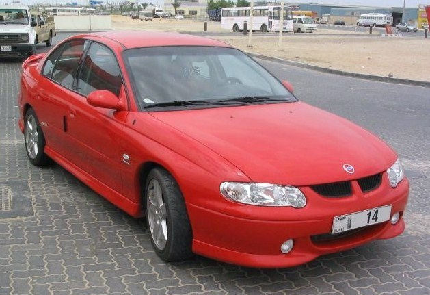 2000–2001 Chevrolet Lumina SS sedan, photographed in Dubai, United Arab Emirates.